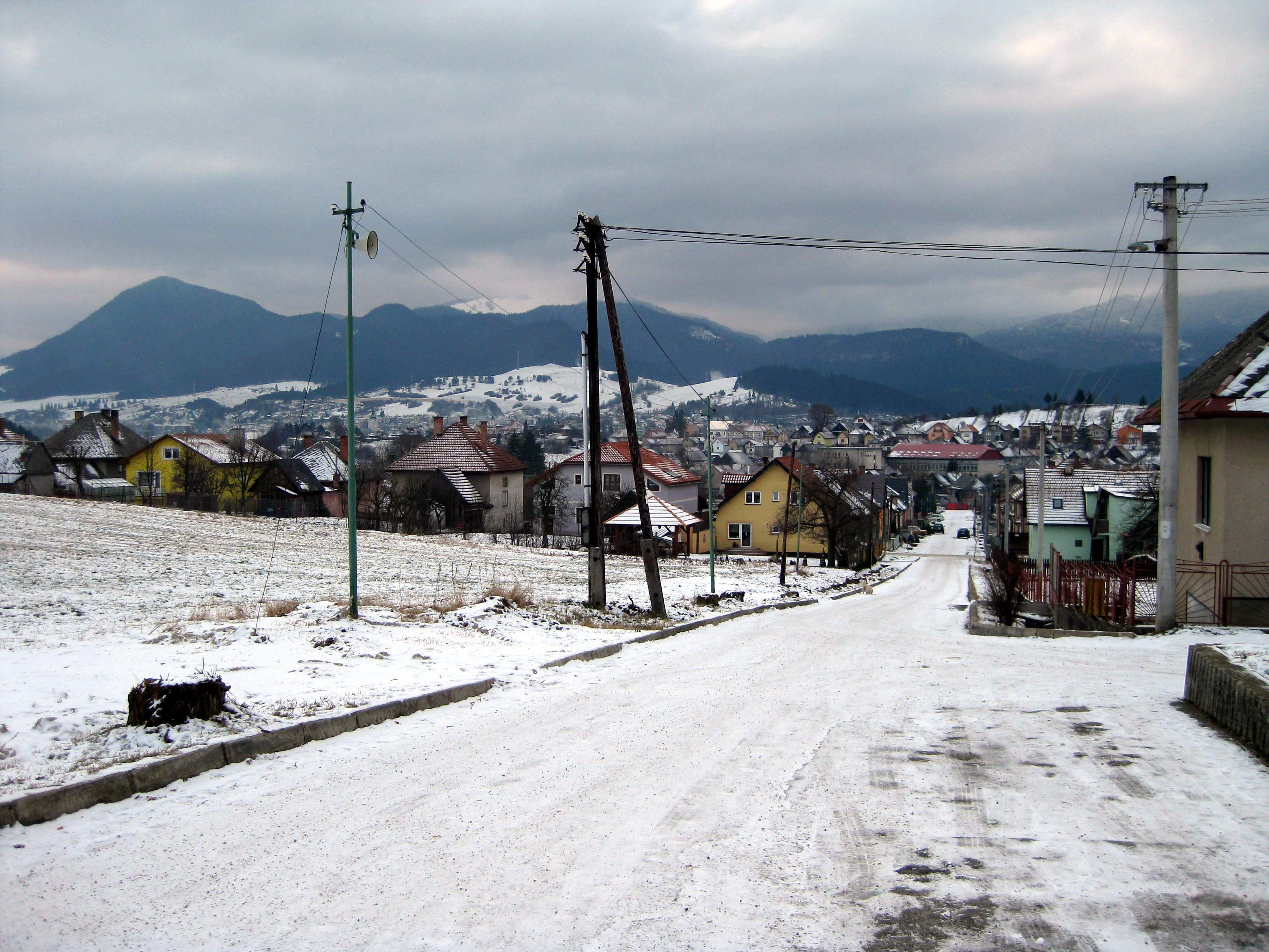 Village Likavka